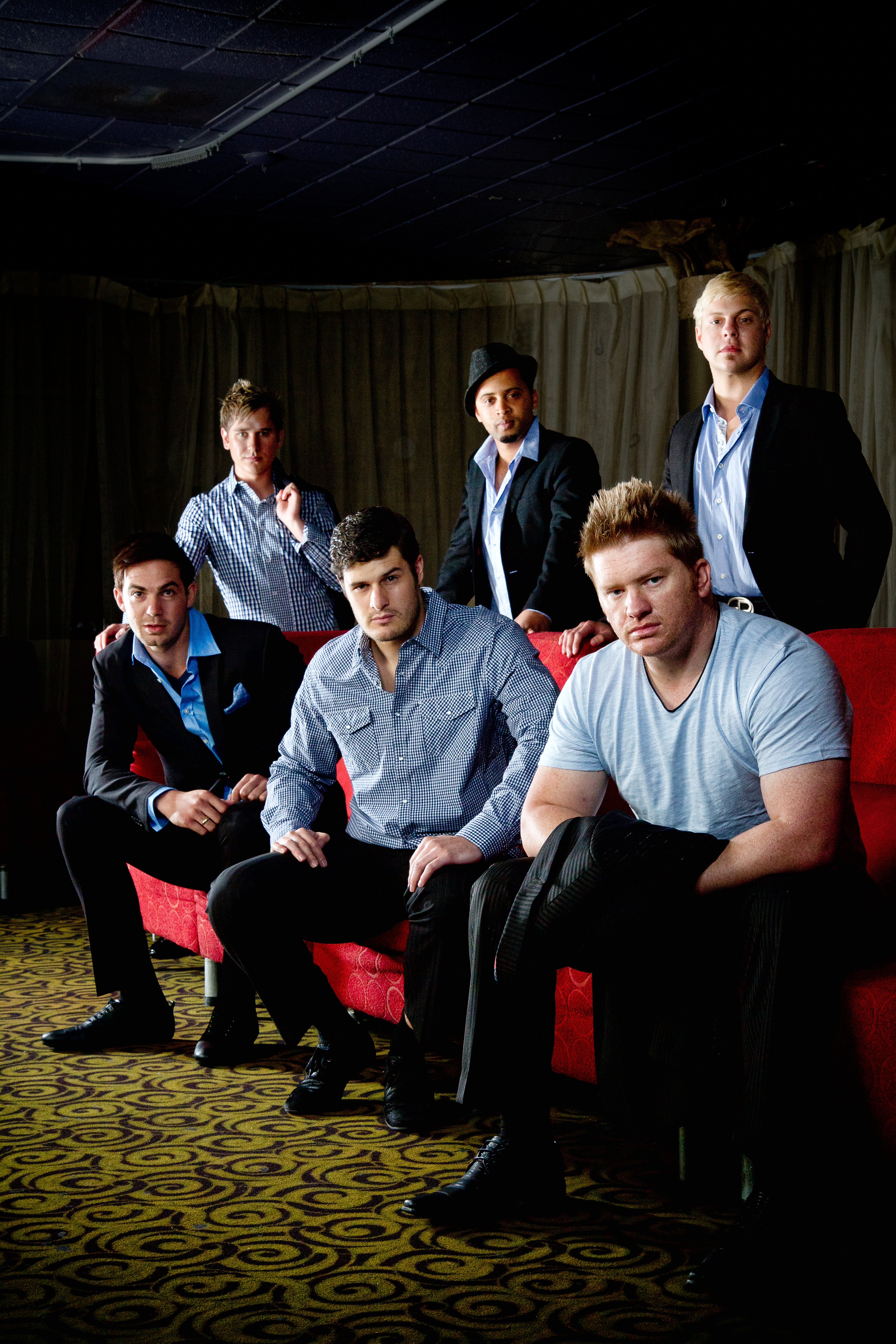 Bottom left to right: Emile Welman, Riaan Weyers, Ernie Bates. Top left to right: Shane Smit, Valentino Ponsonby, Eduard Janse van Rensburg.